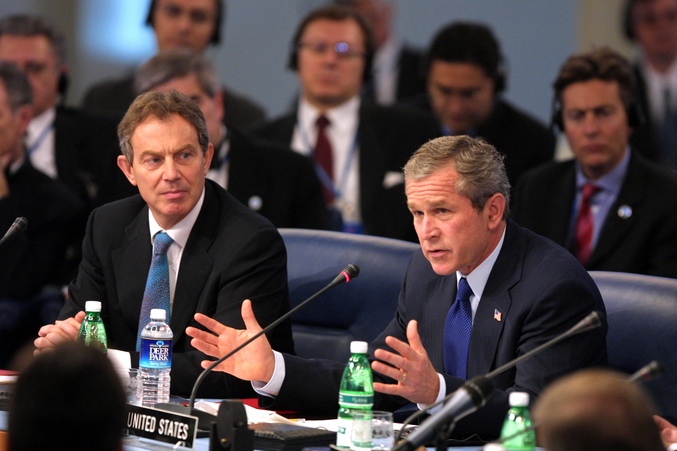 President George W. Bush, seated next to British Prime Minister Tony Blair, addresses world leaders during the meeting of the NATO-Russia Council at Practica di Mare Air Force base near Rome, Italy.